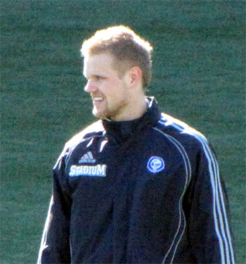 Finnish footballer Juho Mäkelä during warm-up of Veikkausliiga match between HJK and KuPS.